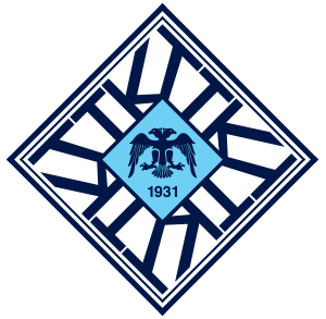 The symbol of double headed Eagle